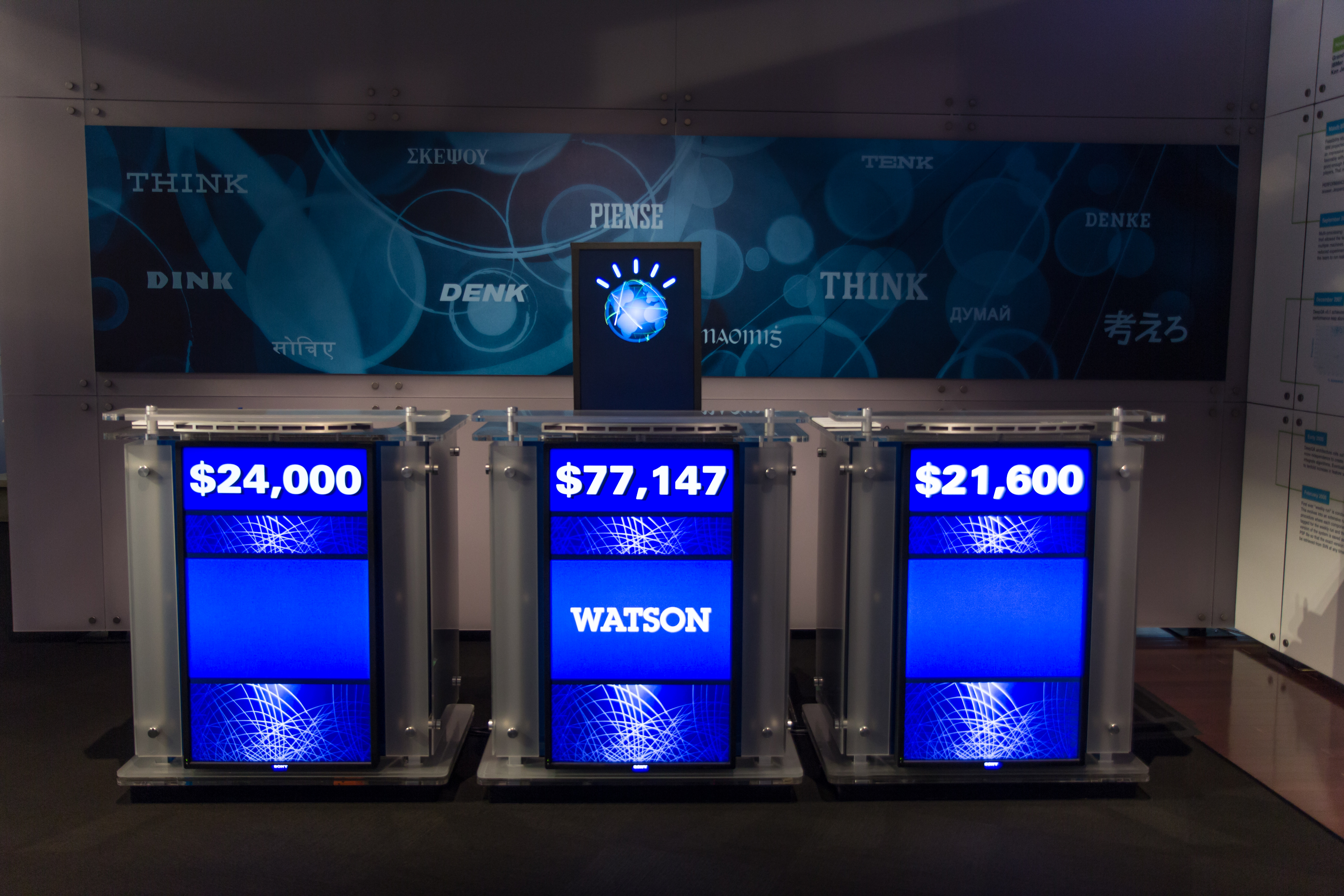 Watson stage replica in Jeopardy! contest, Mountain View, California